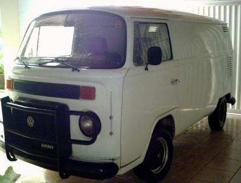 Picture of the Brazilian version of the Vw Type 2, '83 model, Diesel engine.